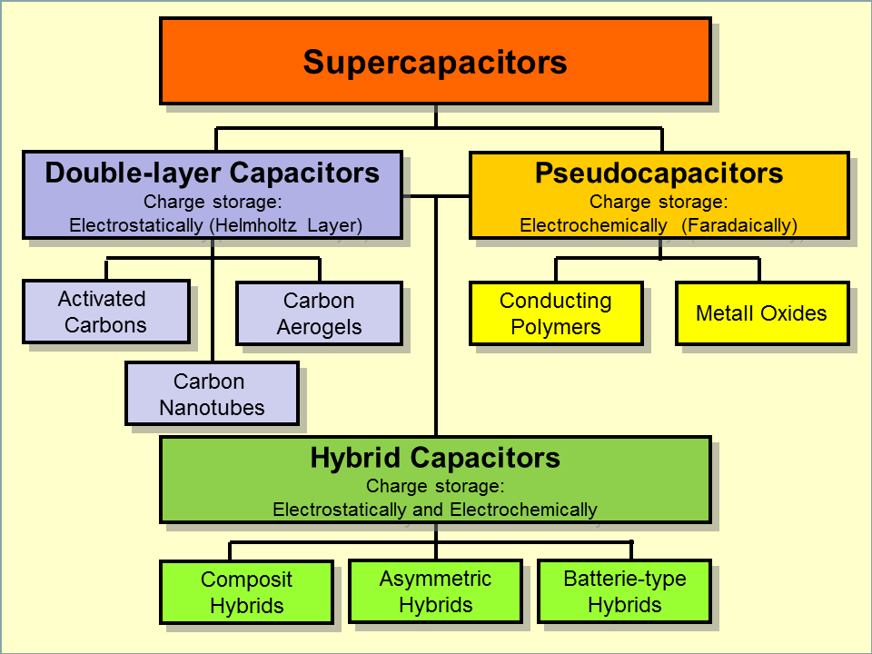 Hierachical classification of supercapacitors and related types